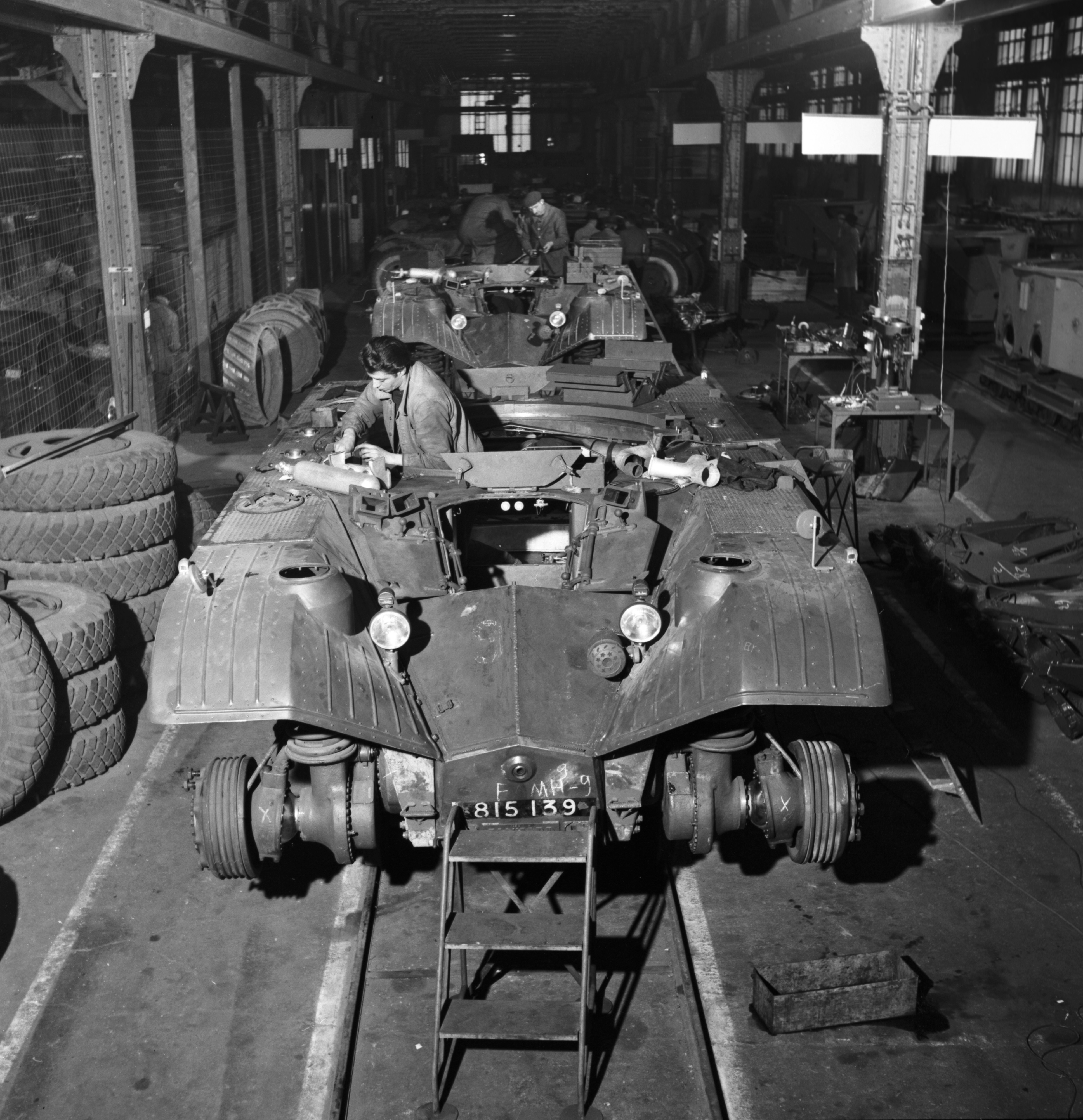 Newly manufactured hulls of Panhard EBR armoured cars on an assembly line in Paris, France.